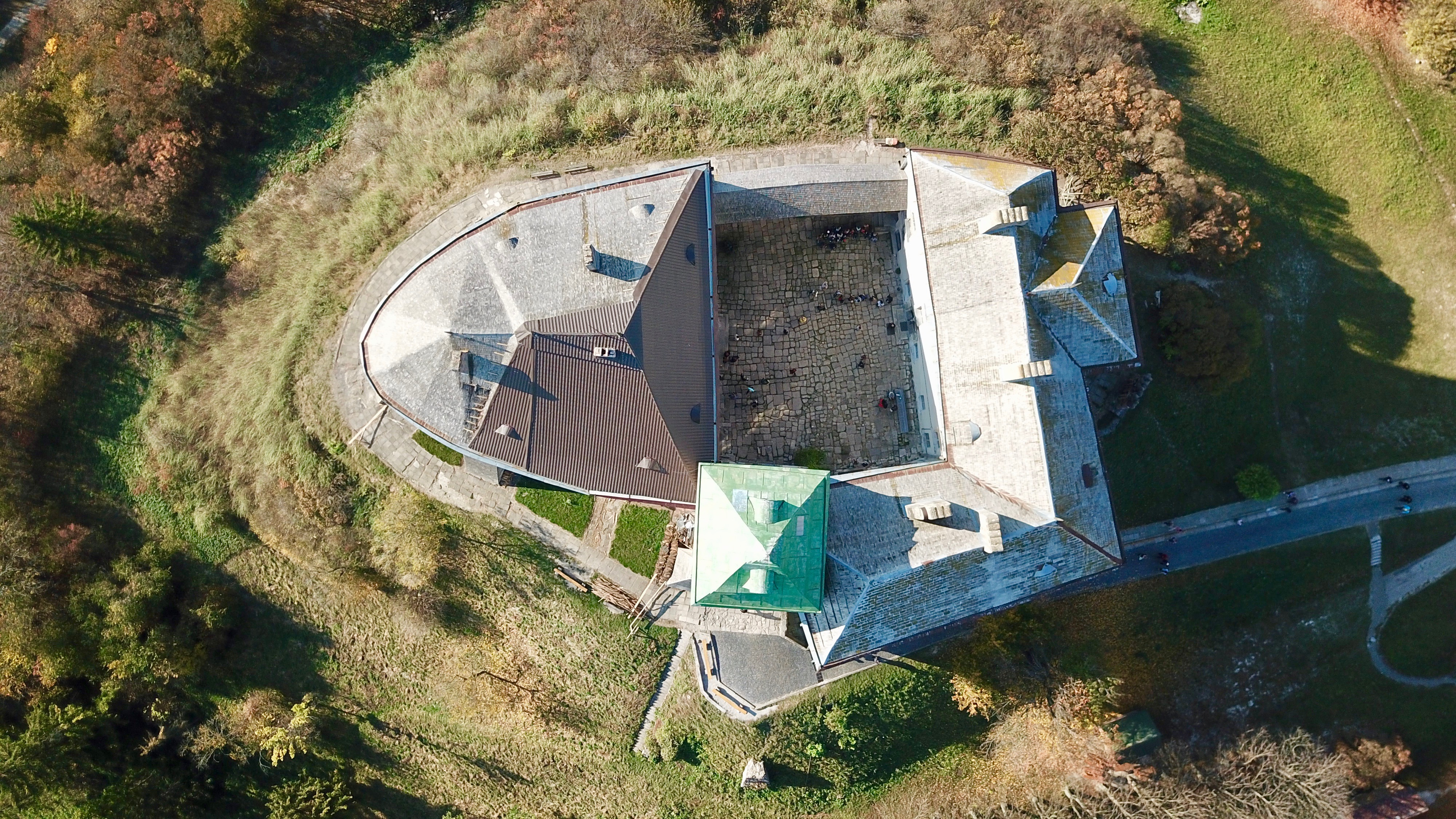 Aerial view of Olesko Castle (Olesko, Lviv Region, Ukraine)